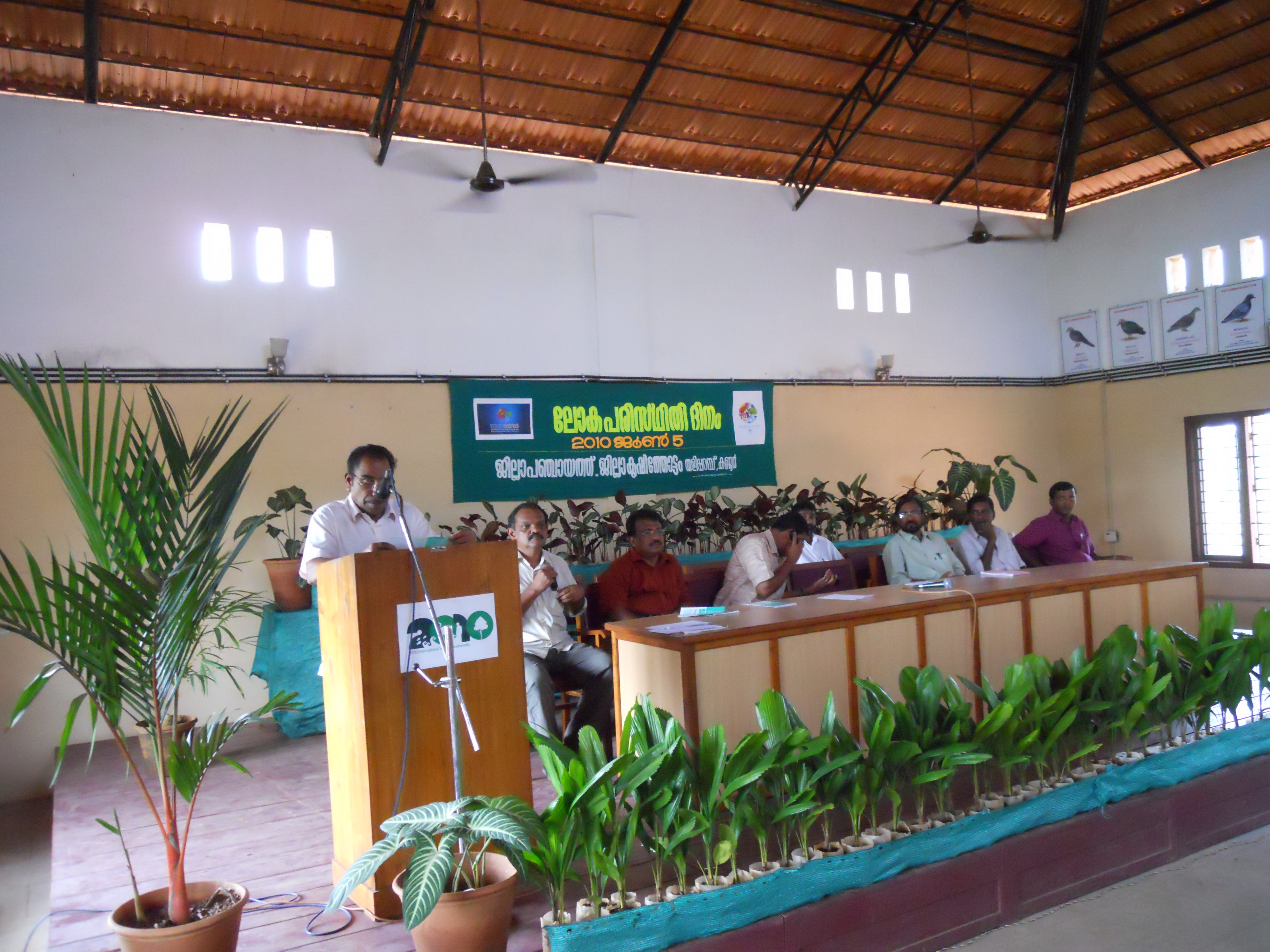 World Environment Day